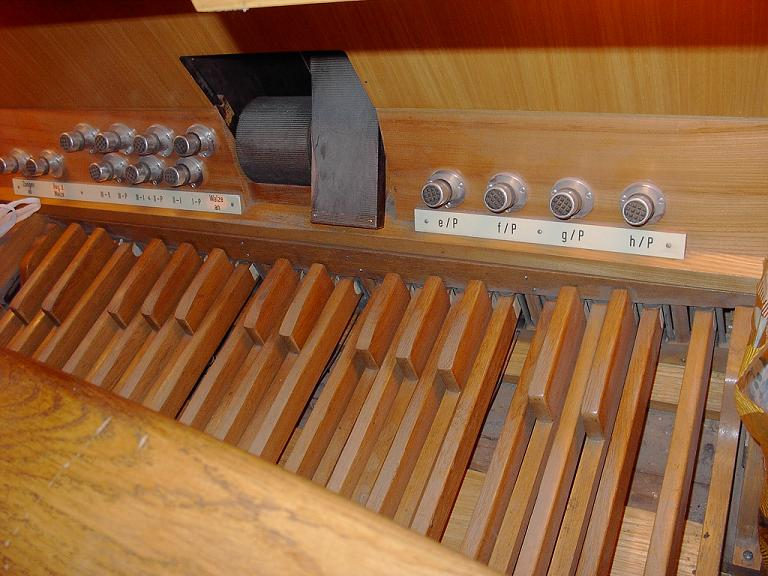 The pedalboard of the "Schuke" organ in "Bulgaria Concert Hall"